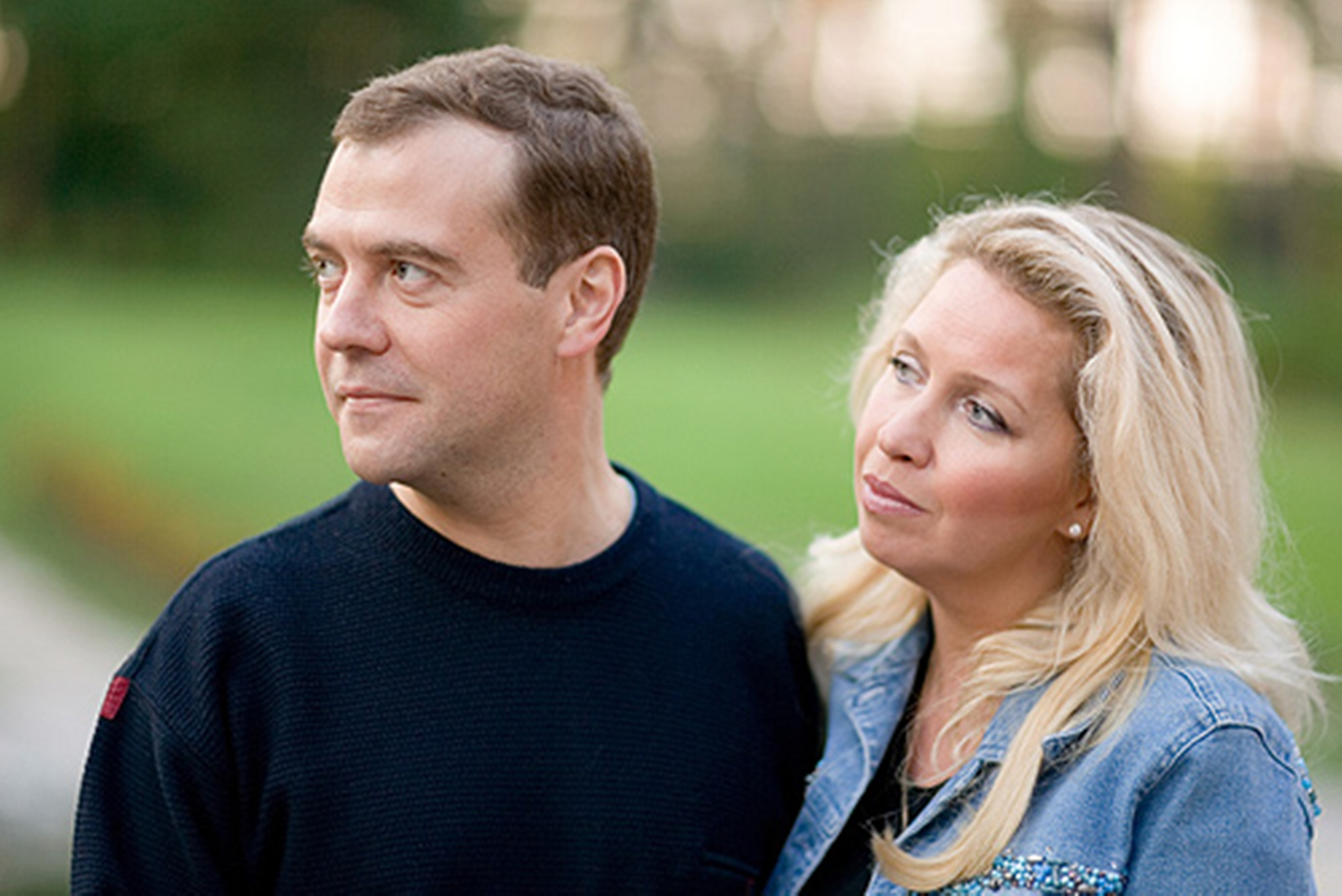 Dmitry Medvedev and his wife Svetlana Medvedeva